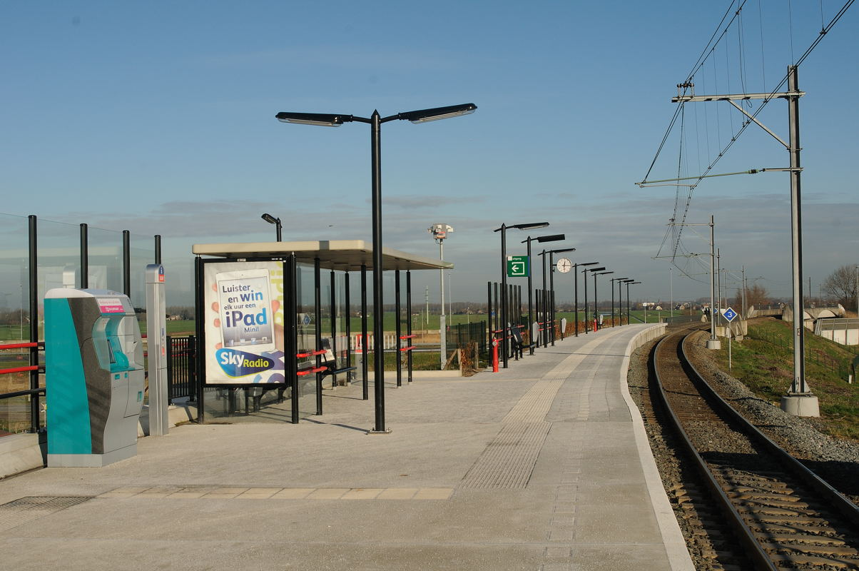 Railway station Sliedrecht Baanhoek with only one track and one platform.